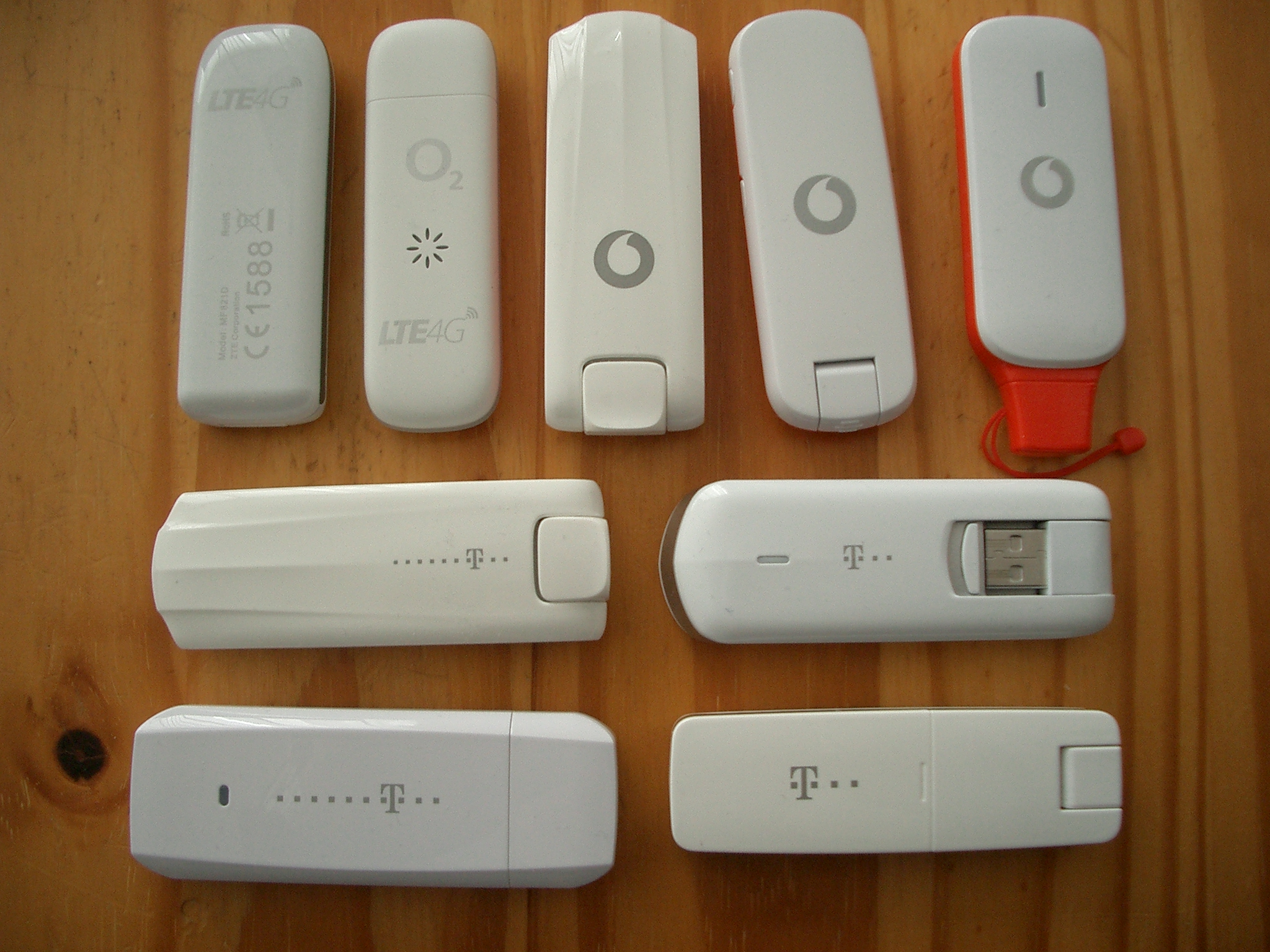 photo of lte-usb-sticks